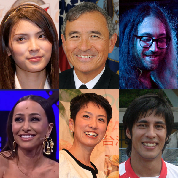 Mosaic of 6 notable Hāfu. Upper row, left to right: Sayaka Akimoto, idol singer, dancer, actress, television host and model; Harry B. Harris Jr., four-star admiral in the United States Navy; Sean Lennon, musician and composer. Lower row, left to right: Angela Aki, pop singer-songwriter and pianist; Renhō, journalist and politician; Arata Izumi, footballer.